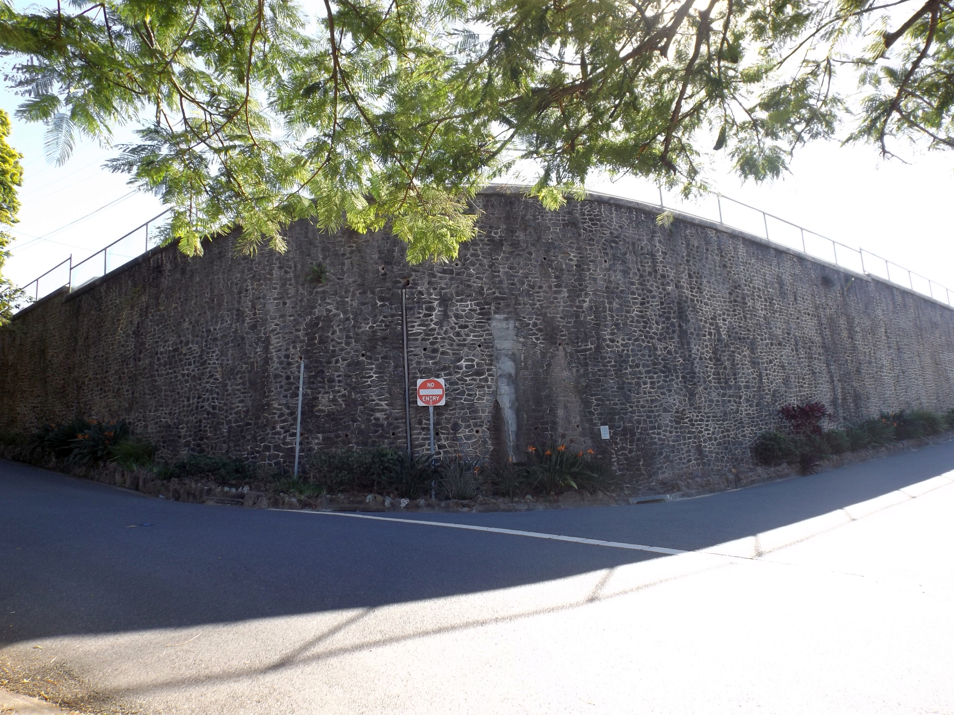 Photo of the central corner of the Manly Retaining Wall at Manly, Brisbane, Queensland, Australia.